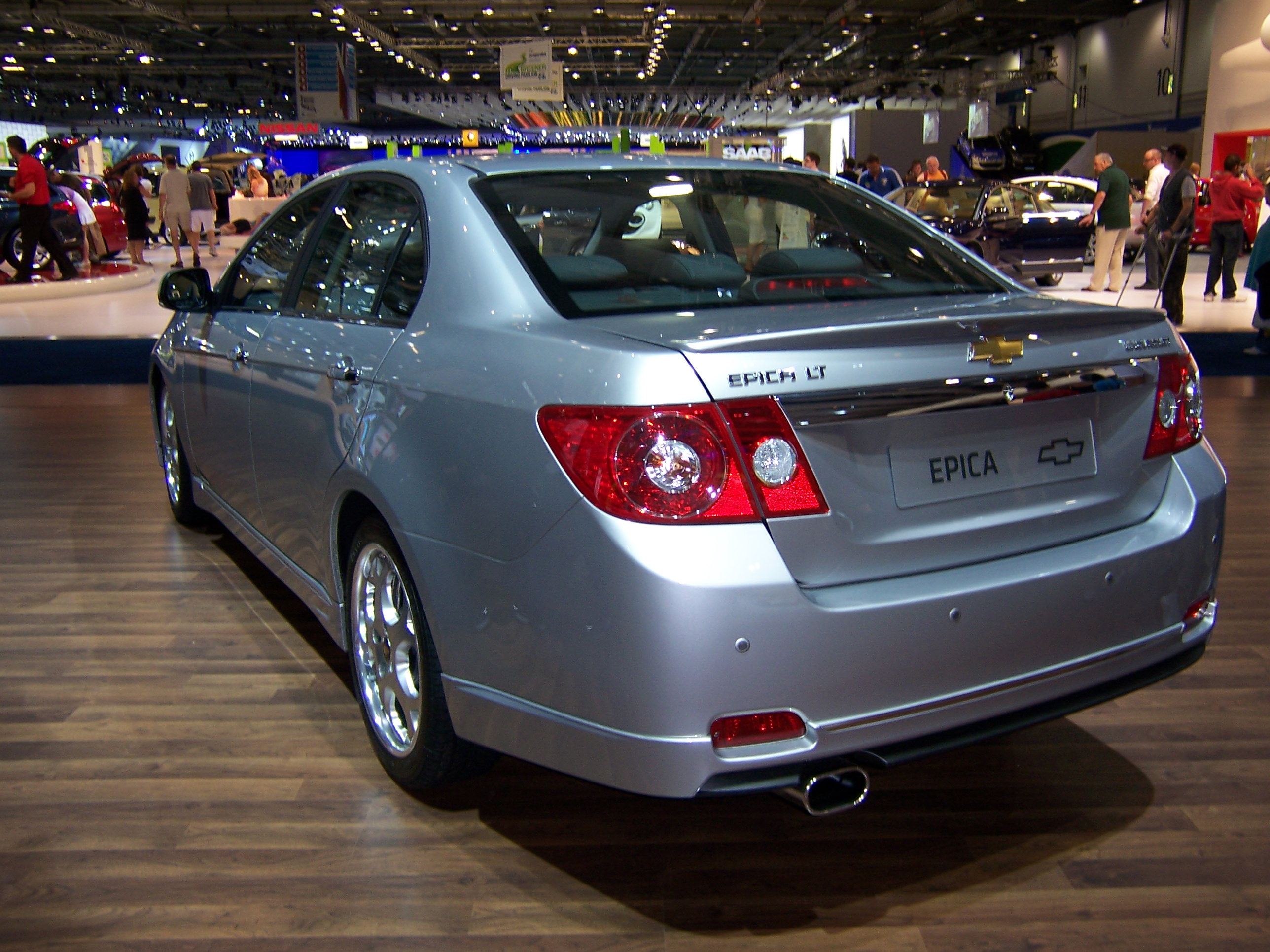 Chevrolet Epica